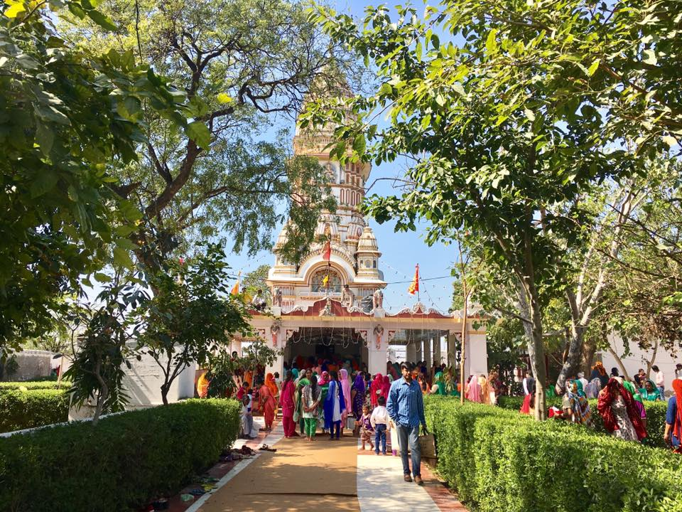 This is the front view of Lord Shiva Temple of village Kathura